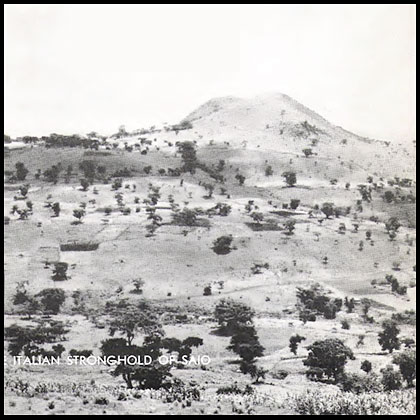 Saïo terrain. An Italian fortress was present on the hill during World War II.